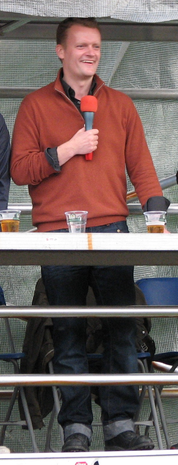 Frank Hvam commentating the Landligger soccer tournament in Rørvig.